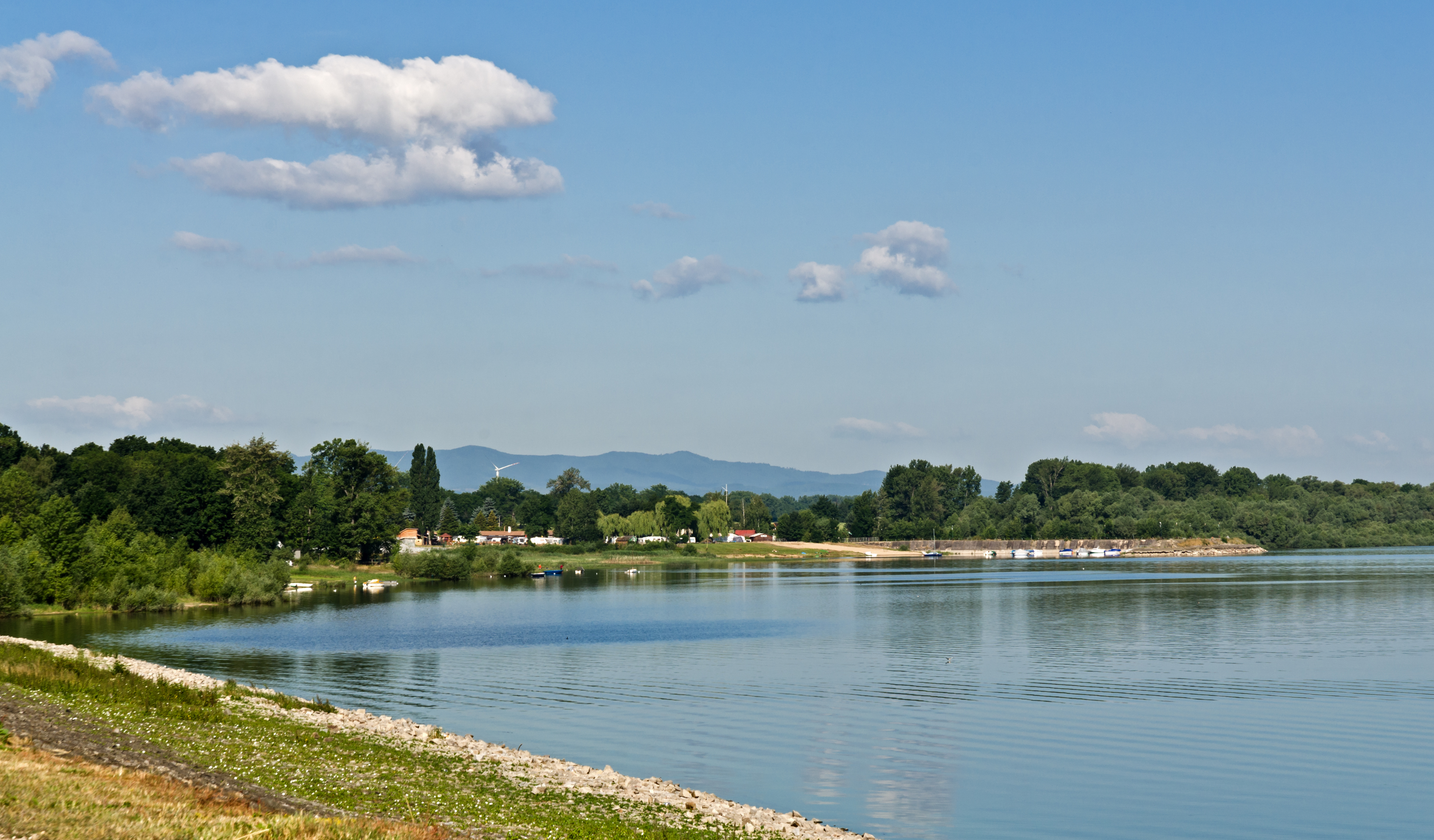 Otmuchowskie Lake in Ścibórz